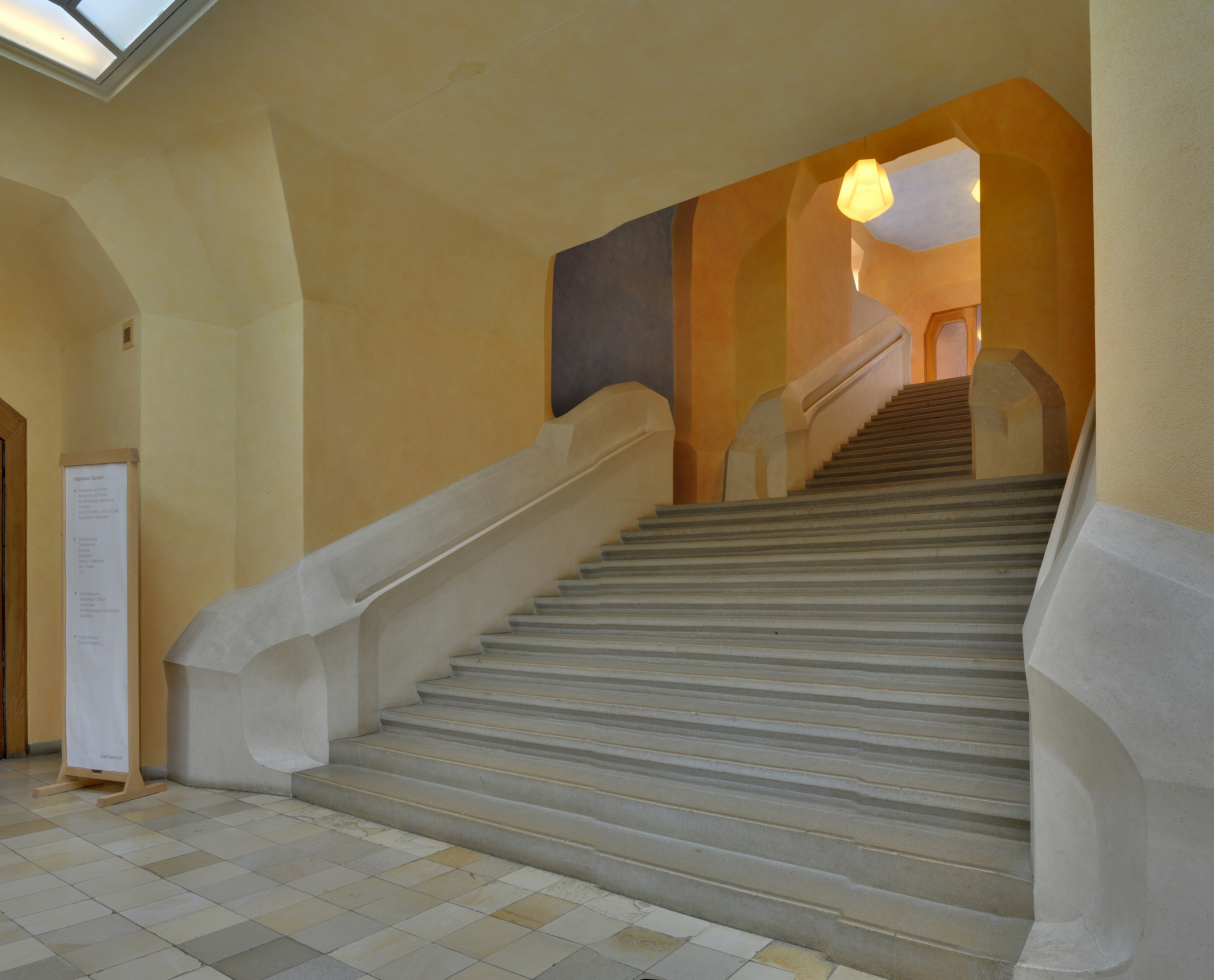 Goetheanum: southern staircase